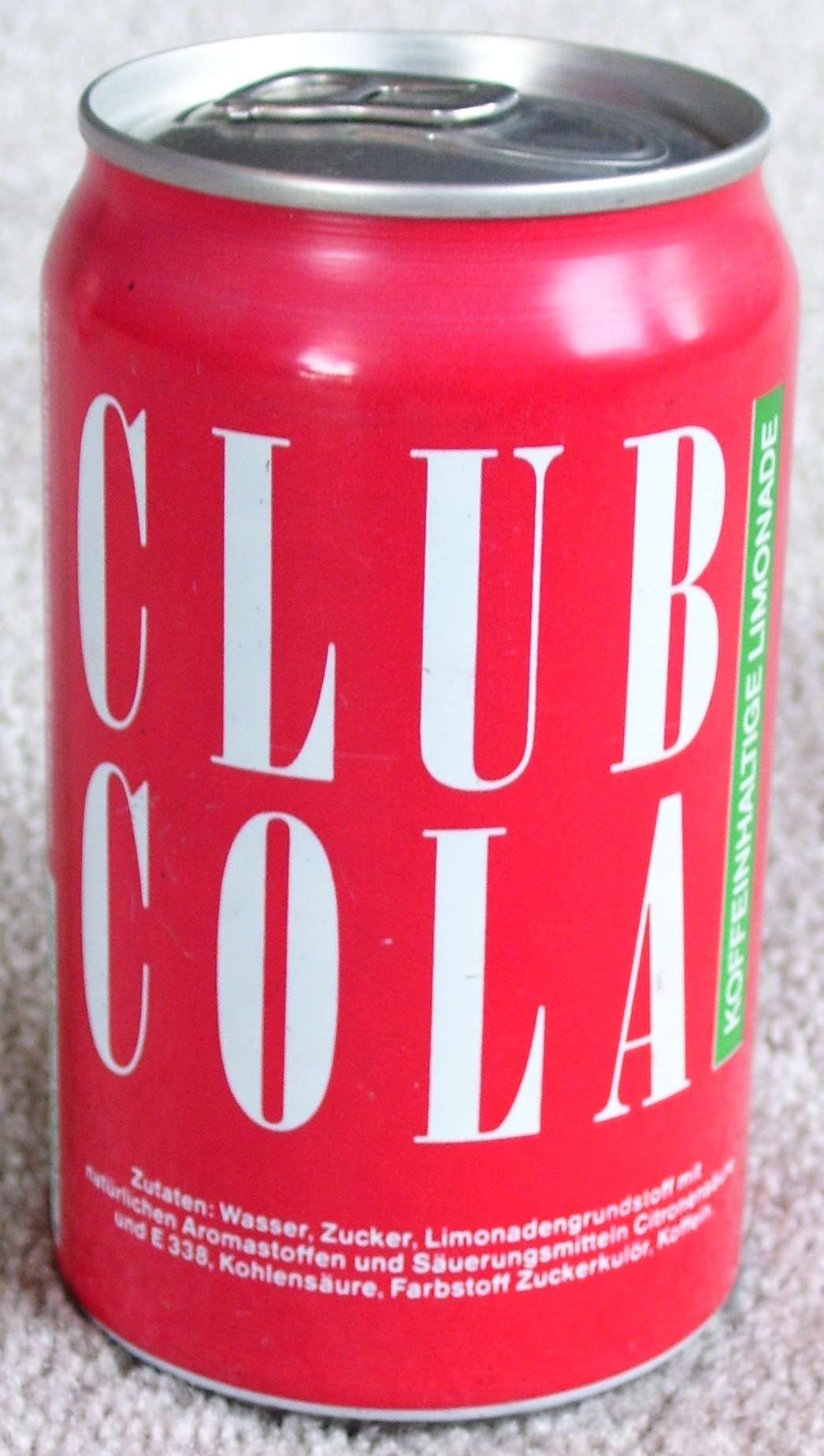 A can of Club Cola from 1993. from my own collection. taken by ProhibitOnions, 2007.